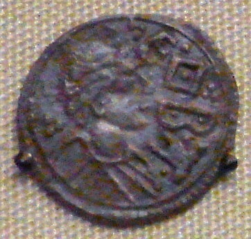 Cynethryth, queen of Offa of Mercia